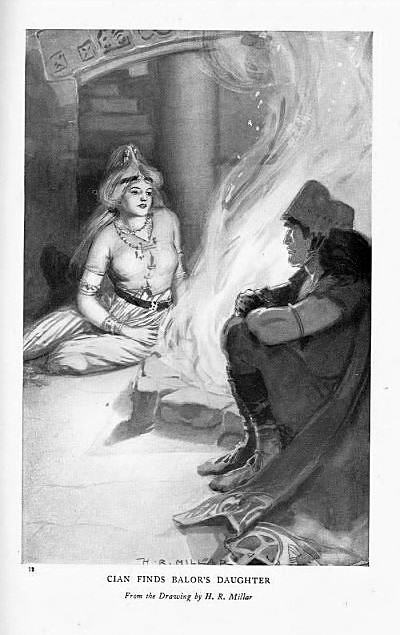 Illustration of Cian and Balor's daughter by Harold Robert Millar. From: Squire, Charles (n.d.), “Chapter 15: The Decline and Fall of the Gods”, in Celtic Myth And Legend Poetry And Romance, London: Gresham Publishing Company, page 236. Originally published under the title The Mythology of the British Islands, London: Blackie and Son, 1905.